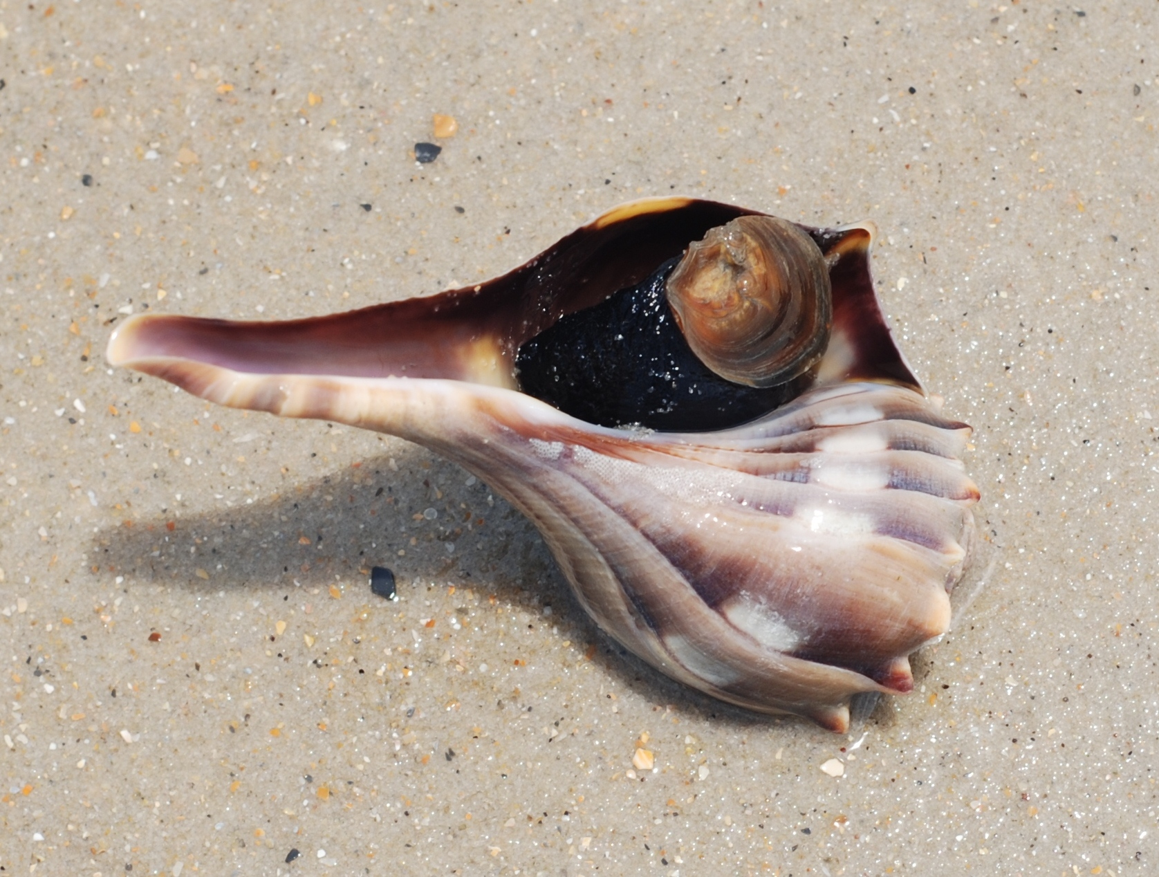 Animals of Core Banks, North Carolina: live Lightning whelk Sinistrofulgur perversum (Linnaeus, 1758) (synonym: Busycon perversum) on the beach.